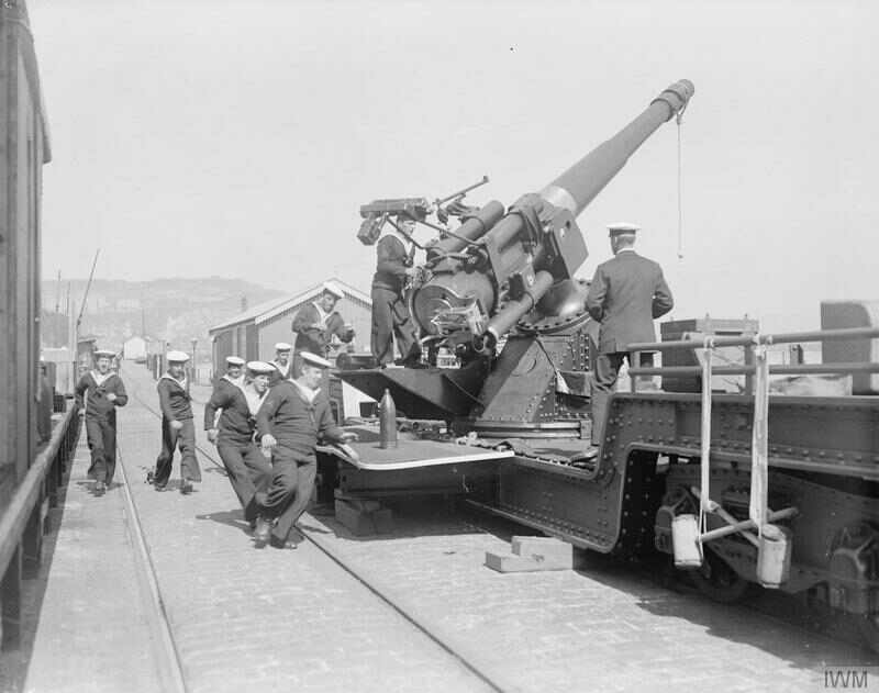 British QF 6 inch naval gun, on high-angle mounting on railway truck, as anti-aircraft gun. At Prince of Wales Pier, Dover. Cartridge case is visible lying horizontally behind gunlayer's feet (left side of gun). A rope is attached to the barrel for use in manually depressing it. This was necessary because the gun was not designed to be mounted at such a high angle, and hence the gun was unbalanced, necessitating manual intervention to depress the barrel. Additional recuperator cylinders appear to have been added above the barrel, presumably to assist runout at the abnormally high angle.